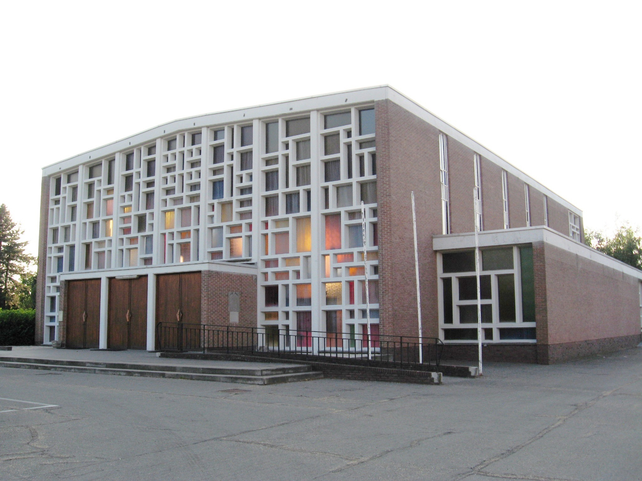 Church of Saint Nicolas in Niel-bij-As, As, Limburg, Belgium